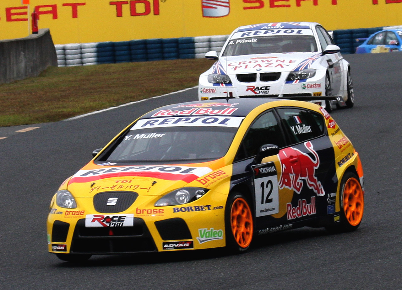 Yvan Muller (SEAT Sport) driving the SEAT Léon TDI WTCC car, in warm up at the 2008 WTCC Race of Japan.